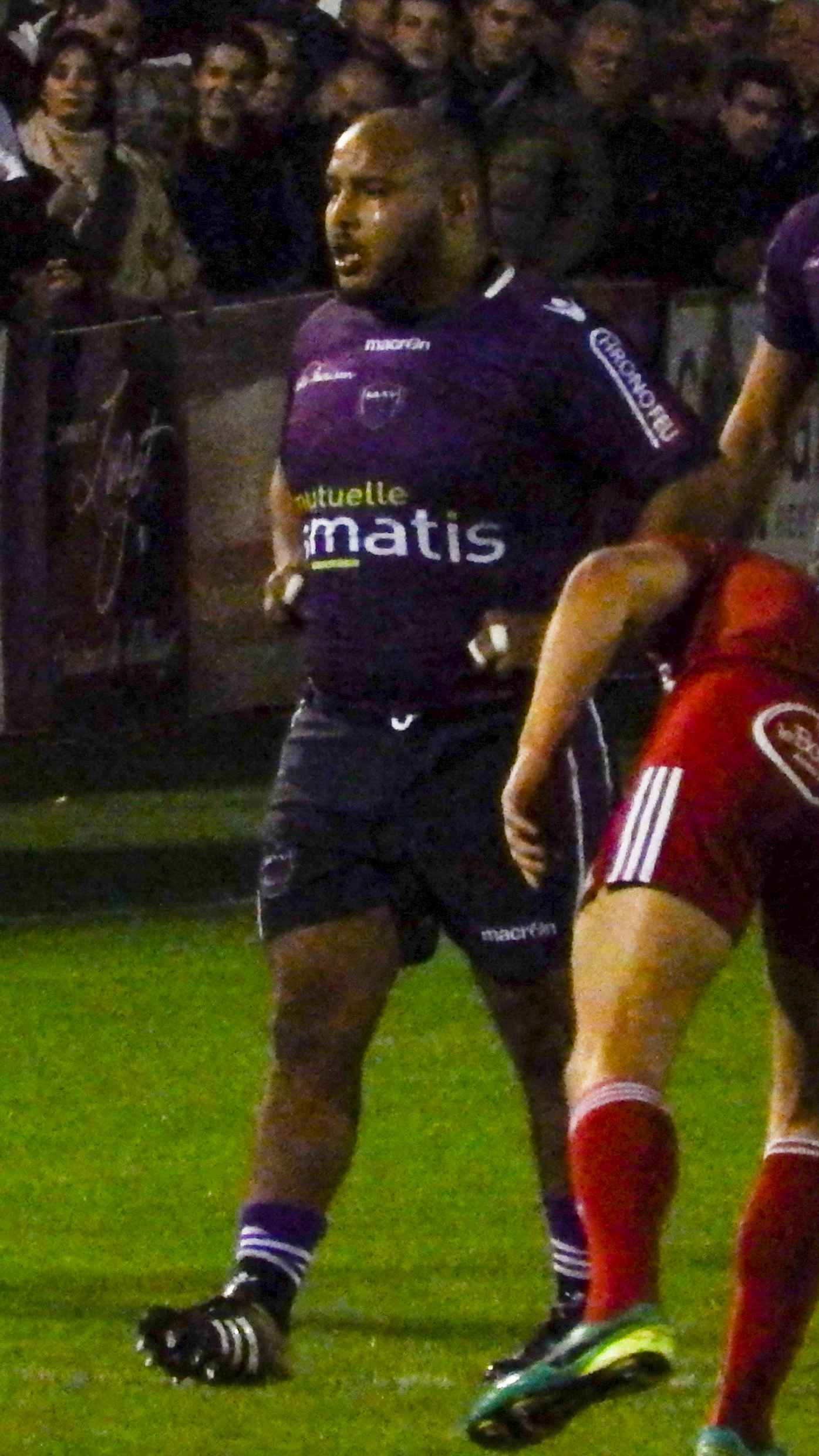 2016–17 Rugby Pro D2 season — 14 October 2016, Stade Chanzy. Match between: Soyaux Angoulême XV Charente — US Dax